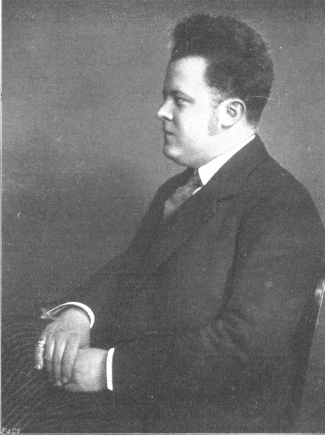 Rudolf Nilius (1883–1962), Austrian conductor and composer.